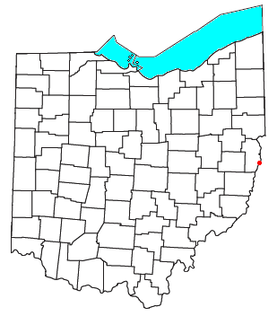 Locator map of the unincorporated community of Brilliant in Jefferson County, Ohio, United States.